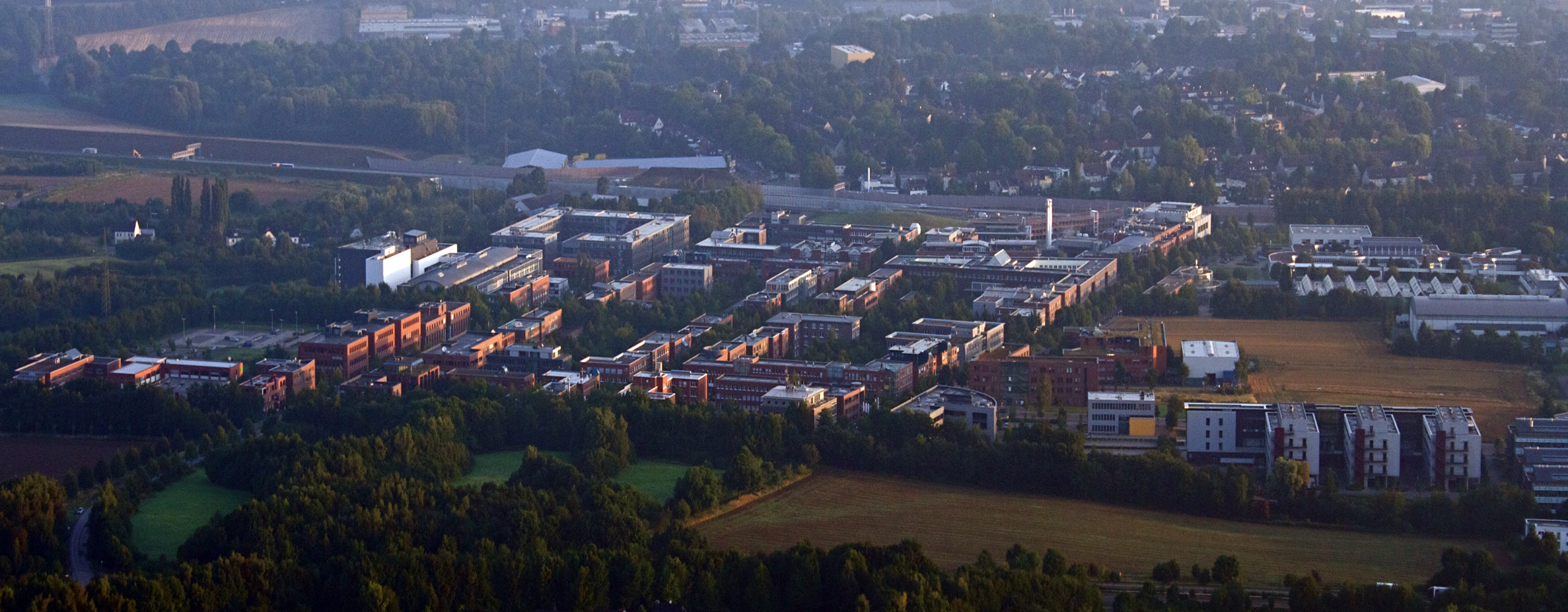 Dortmund Technologiepark photographed 200 m above Eichlinghofen from inside a gas balloon.